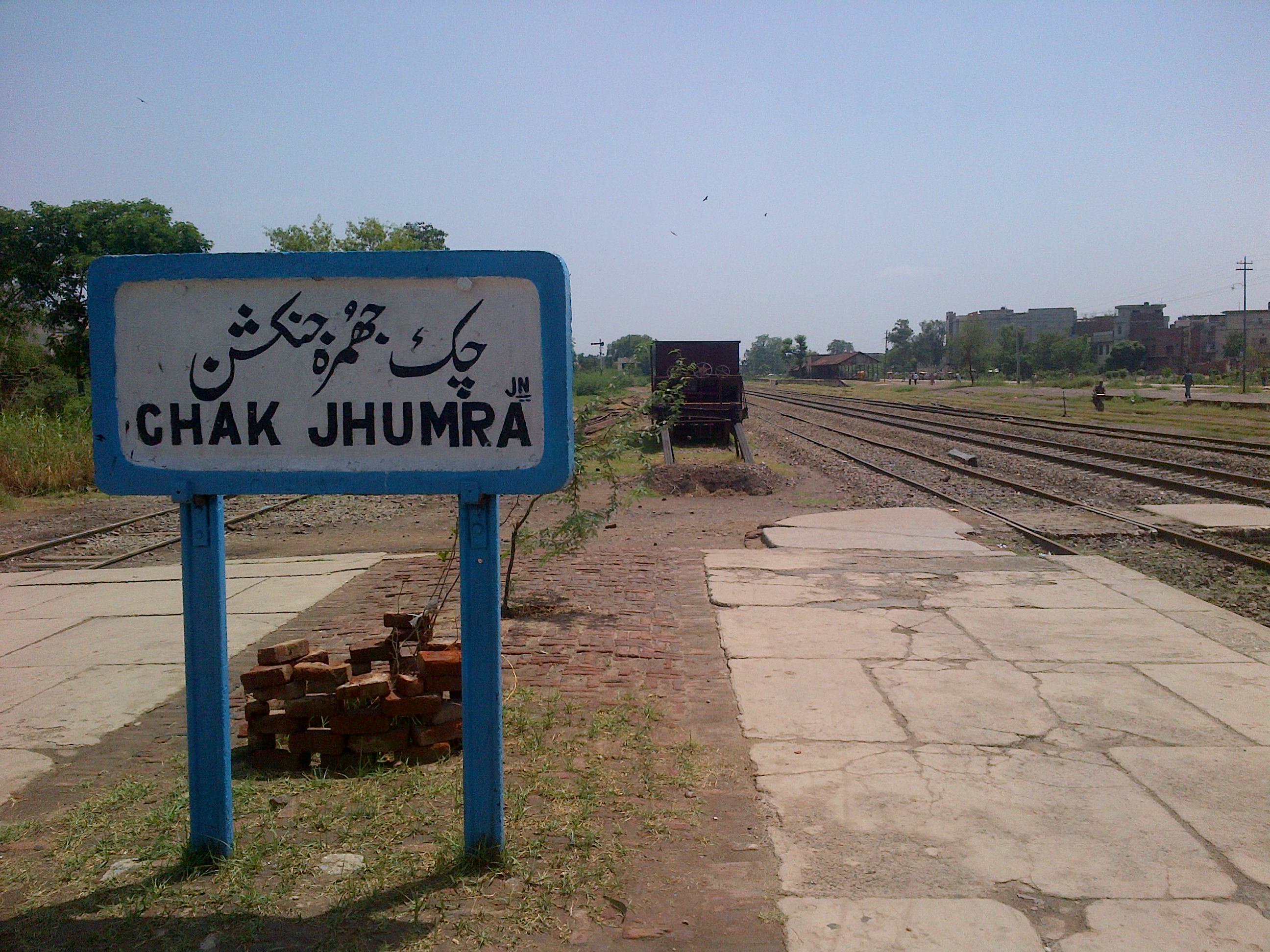 Chak Jhumra, a suburb in Faisalabad has always tempted me to deviate from my usual route of travel to visit the place. The nostalgia dates back to the college days once as ardent readers of Monthly Suspense Digest, we enjoyed the narratives from the diary of Malik Safdar Hayat (a character depicted as a retired DSP revisiting his past memoirs). Malik Sahib's days of posting in Chak Jhumra brought us some fascinating stories. Blessed were the days when reading a story over a piece of snack used to make one's day. Dil dhoond'ta hey phir wohi fursat ke raat din ....